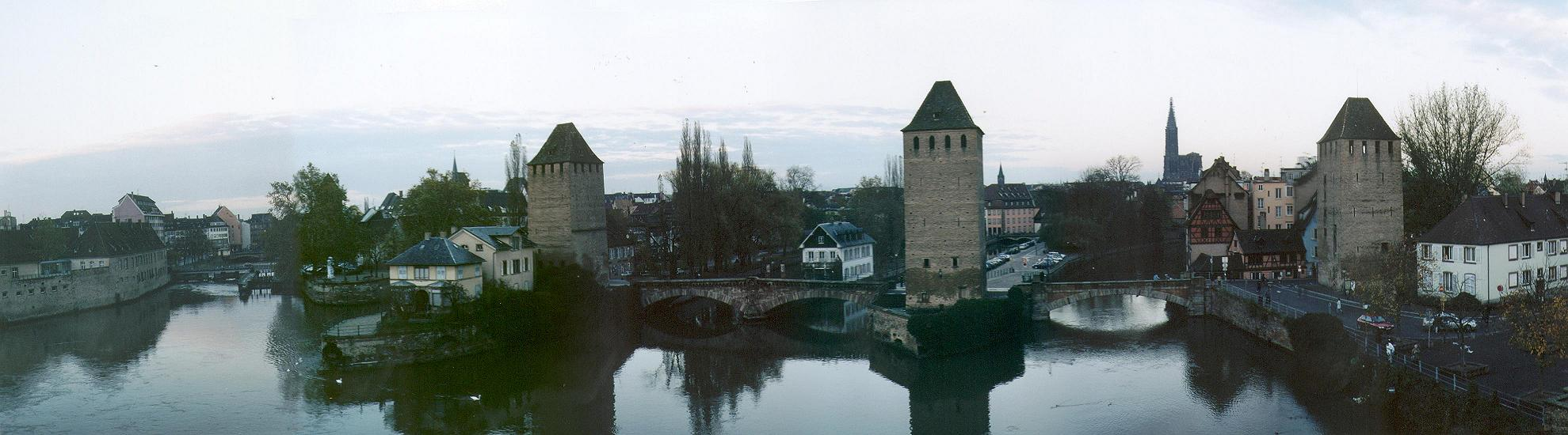 Strasbourg, France Panorama, Tuesday November 5, 2002, about 4 PM, looking from the roof of the Vauban Barrage toward the Ponts Couvert (formerly "covered bridges" over the River Ill, now stone bridges) with four towers of the former city walls (one is hidden behind trees at left), the Petite France (former Tanners Quarter) district, and the cathedral in the background. Originally six vertical photos, panorama made with Panorama Factory ( shareware.